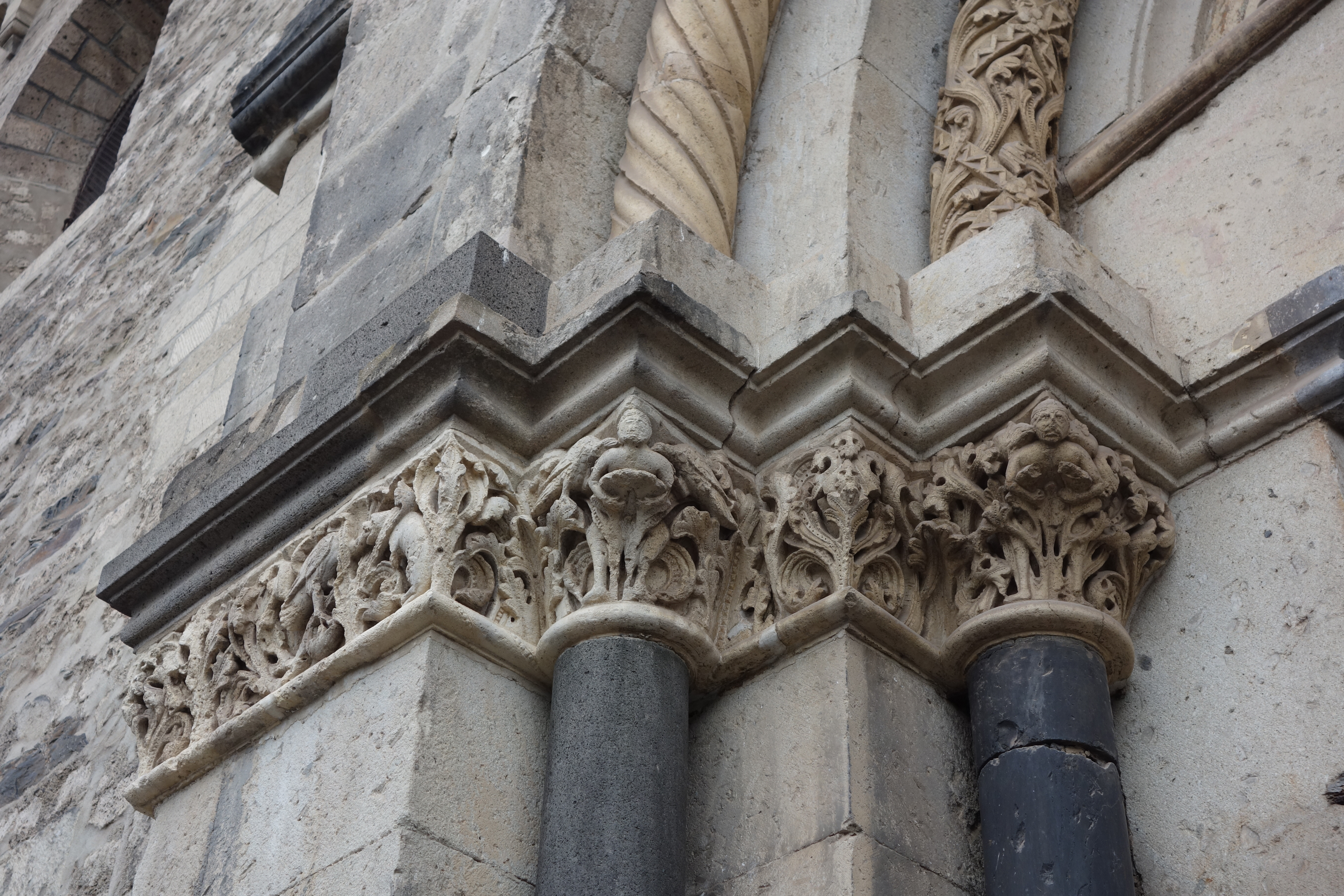 Maria Himmelfahrt (Andernach, Rhineland-Palatinate, Germany), Capitals at the South portal (2018)